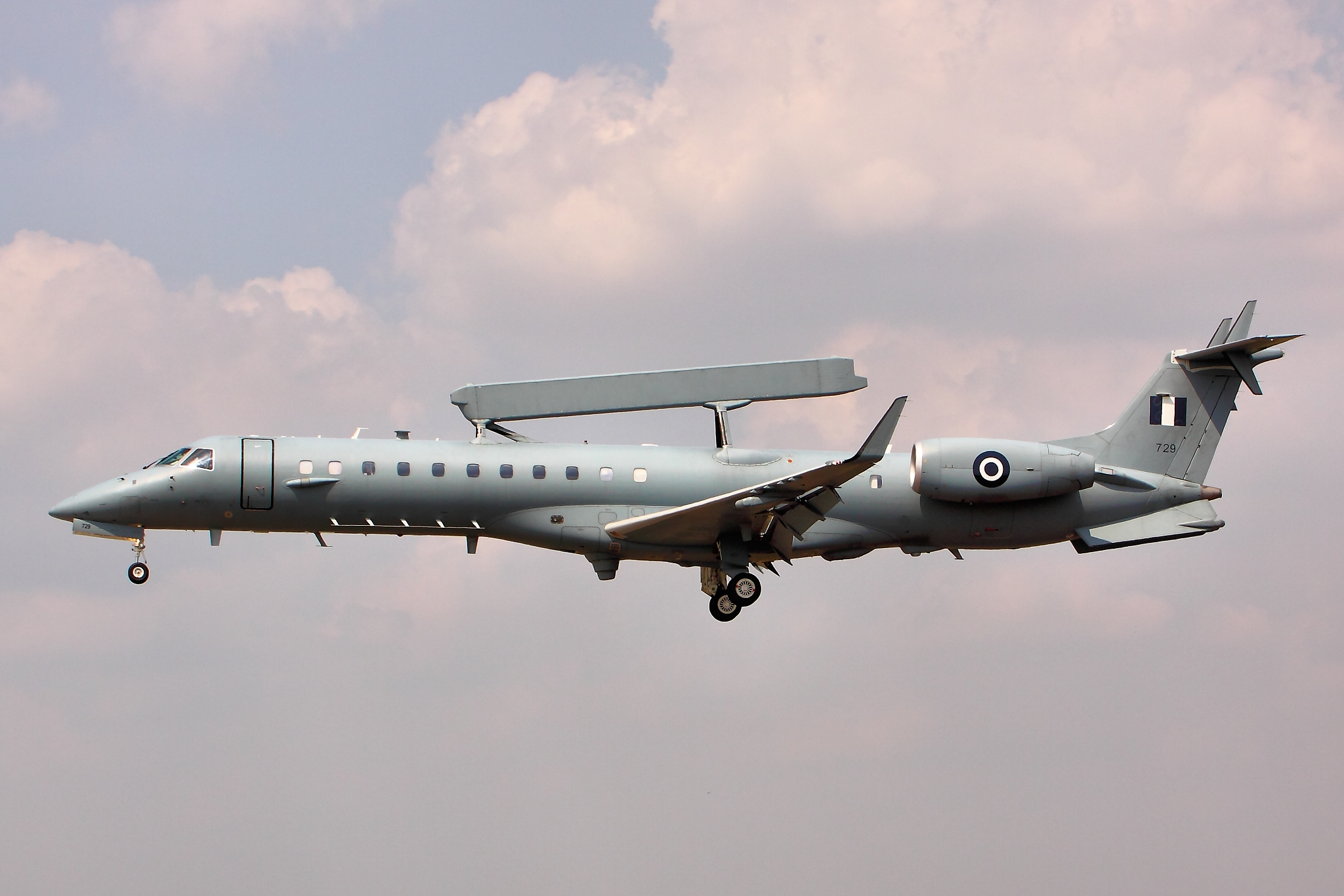 EMB145H AEW&C - RIAT 2013